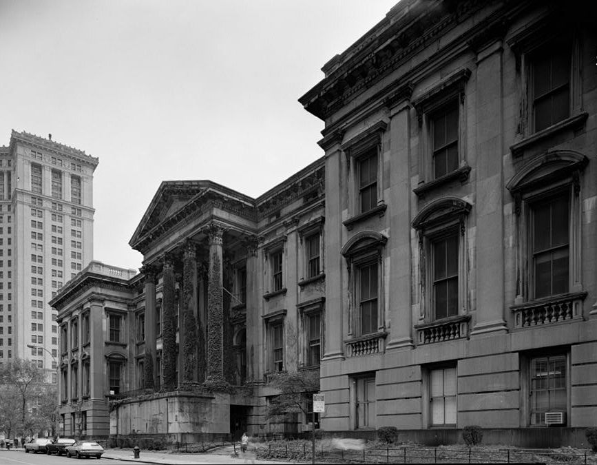 Tweed Courthouse on Chambers Street, New York, New York (Manhattan) - north, main facade. Manhattan Municipal Building is in background.